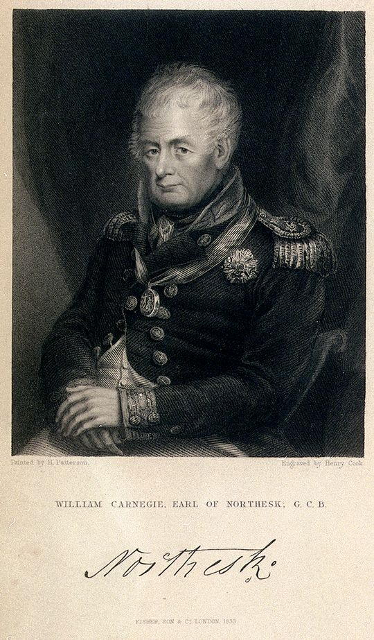 7th Earl of Northesk Admiral